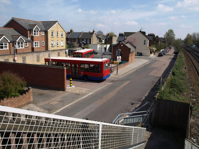 Bus terminus, North Worple Way, Data from Geograph: Description: The bus stand at the terminus of the 209 route, seen from a footbridge across the Richmond-Barnes railway line. Beyond is the junction with Avondale Road. ICBM: 51.467707900345, -0.25984922023718 Location: (about 0 km from) near to Mortlake, Richmond Upon Thames, Great Britain.